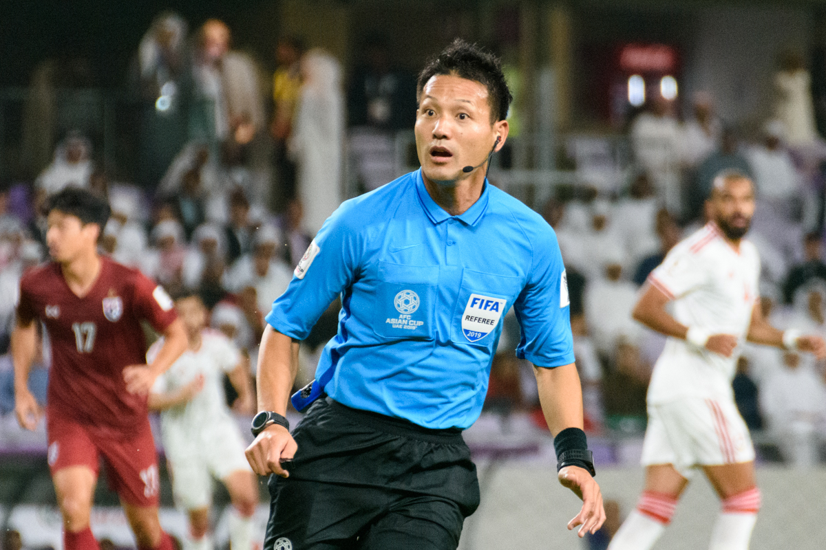 Ryūji Satō at the Asian Cup 2019